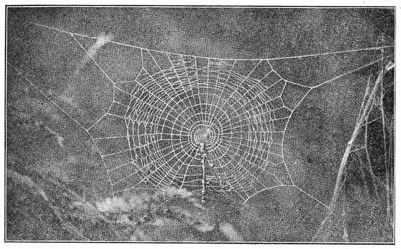 Half-finished web of young Cyclosa conica, showing sticks and rubbish across the lower half. The inner spiral has a loop in the left side.